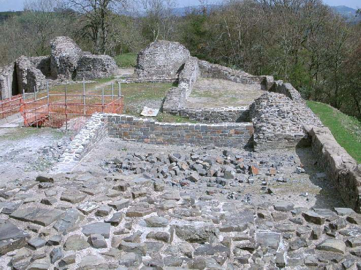 Remains of the Welsh Dolforwyn Castle in the County of Powys in Wales